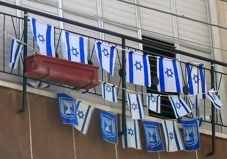 Flaglettes and banner of the Flag of Israel decorate a house during Israel's Independence Day, 2007